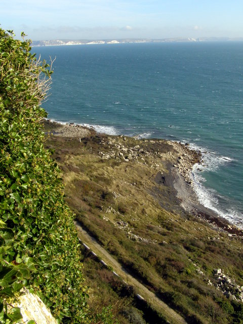 Grove Point, Isle of Portland View from the high coast path at Grove Point, with East Weare and the trackbed of the dismantled railway below. The coast in the distance is around Lulworth Cove.